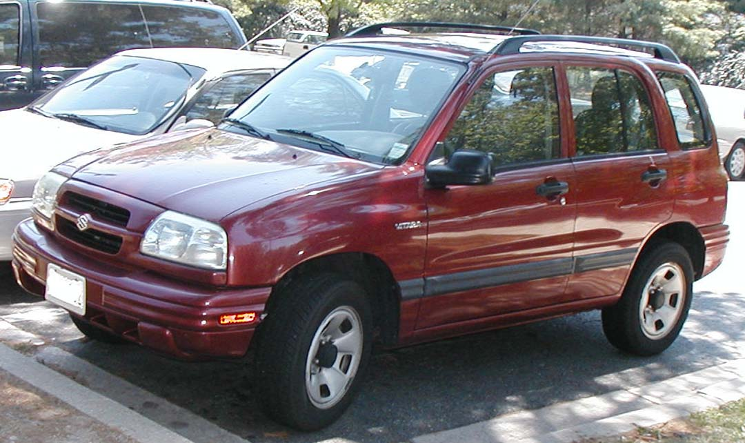 1999-2003 Suzuki Vitara photographed in USA.